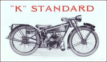 Dunelt K Standard motorcycle.